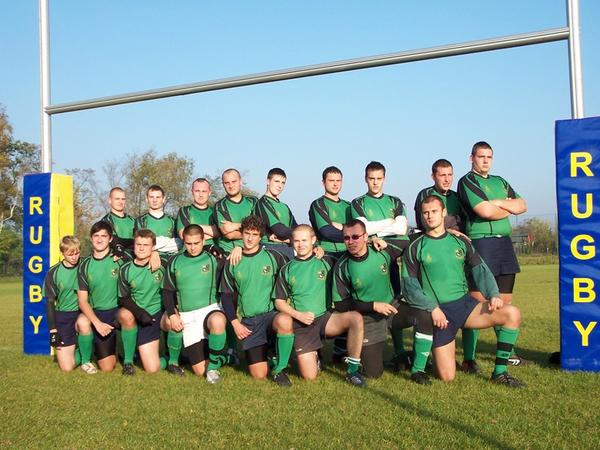 Squad of RC Częstochwa after rugby match against Sosnowiec